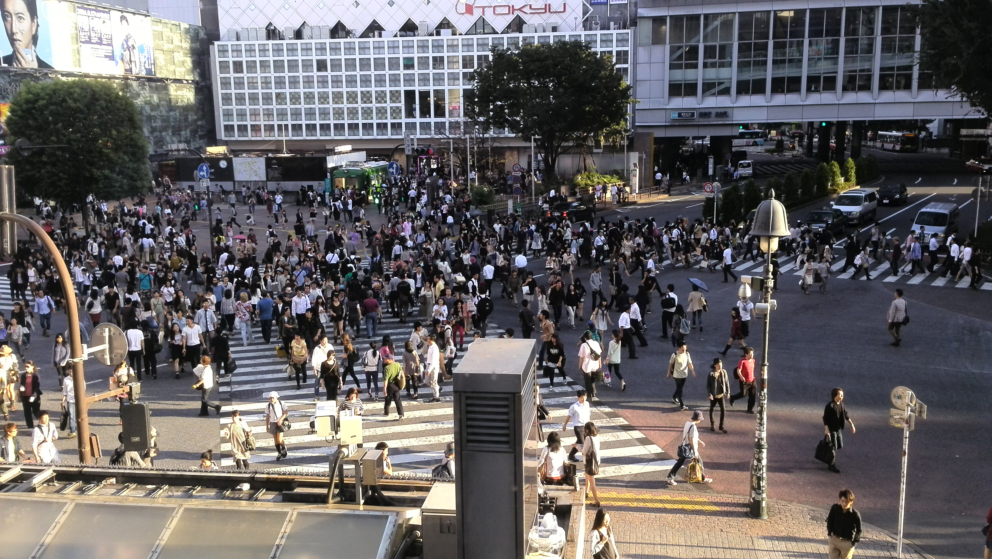 Hachikō square, Shibuya, Tokyo, Japan.